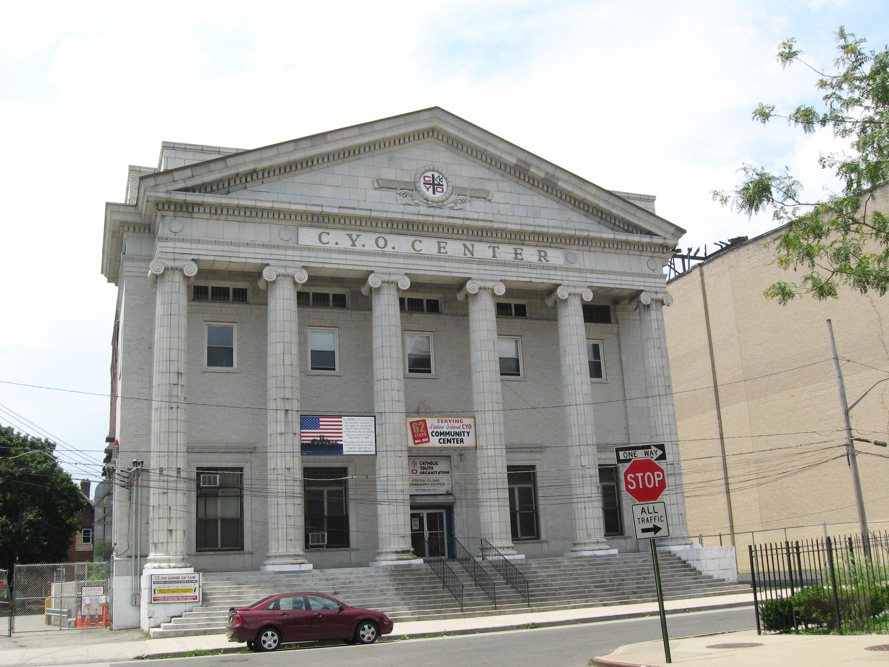 Looking south across Anderson Avenue at CYO building at Park Avenue in Castleton, Staten Island on a cloudy June 2008 afternoon.